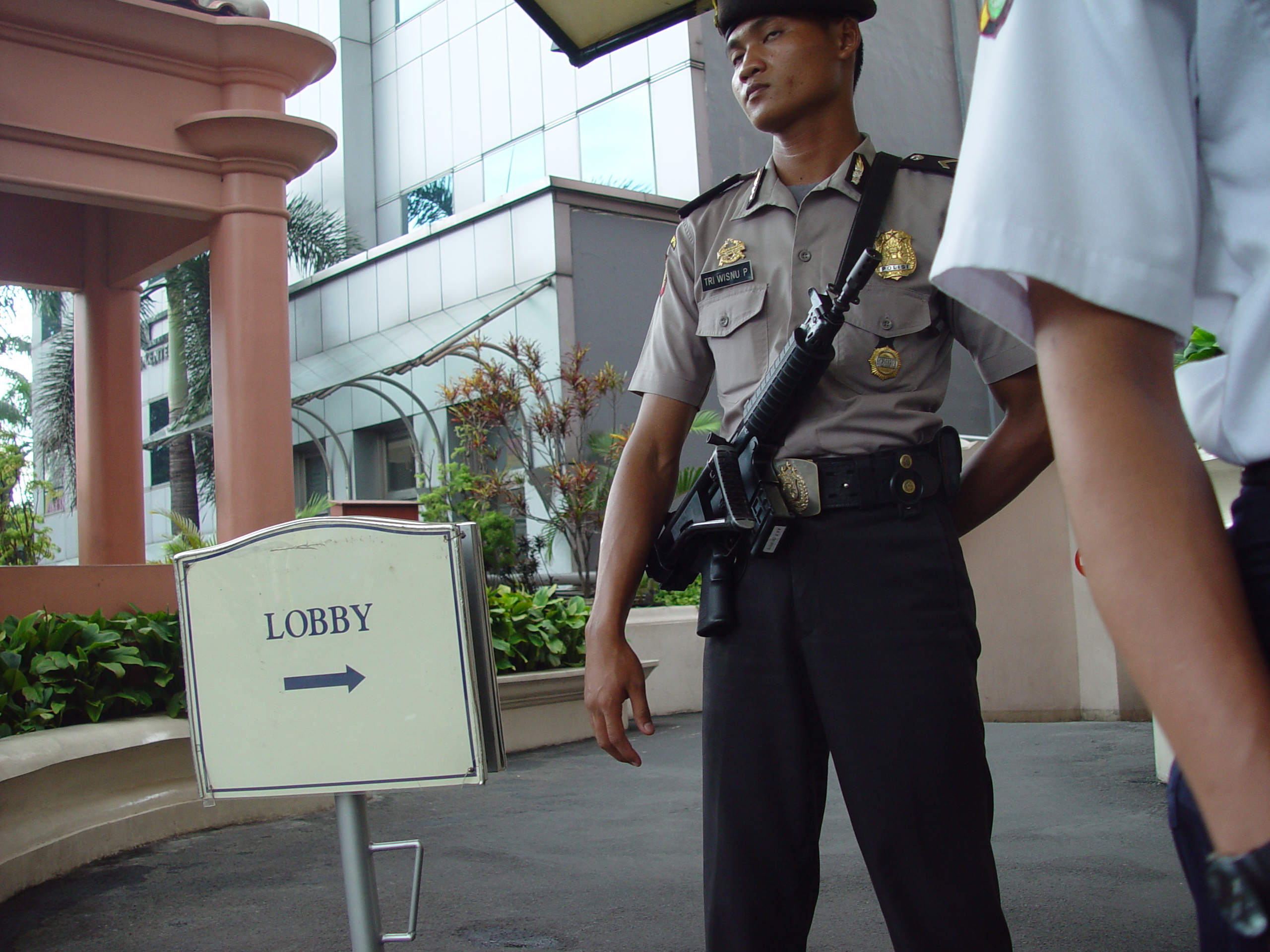 Corporate globalization and mall cultural in Jakarta, Indonesia.